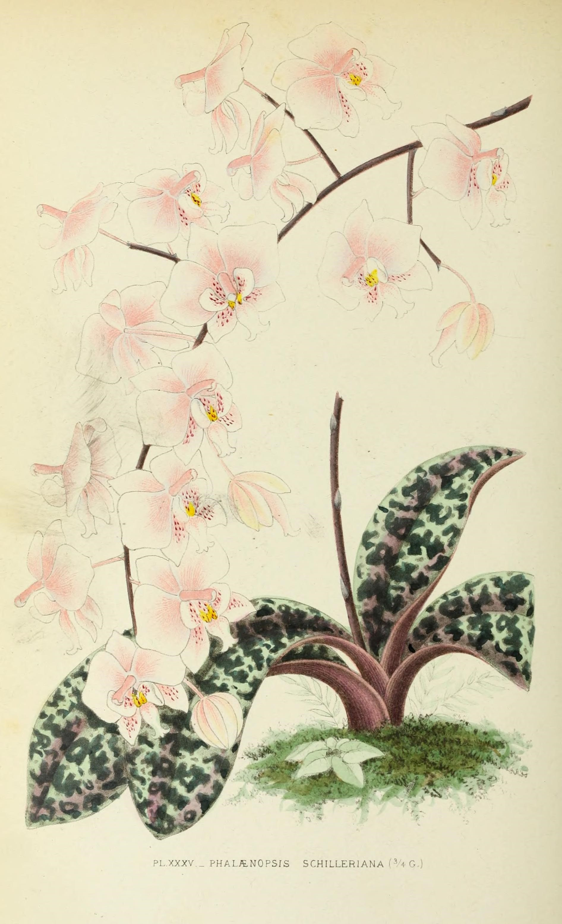 Les orchidées,. Paris,J. Rothschild,1880.. This botanical illustration of orchids is from 1880 publication by E. De Puydt, Les Orchidees, Editor - J. Rothschild; The scientific botanical name of each orchid is at the bottom of the plate. Archived at (1) Biodiversity Heritage Library; (2) Botanical Museum of Harvard University. For text and discussion The photograph published in 1880 qualifies for license under PD-Art